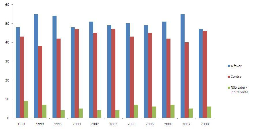 Graph I created in Microsoft Excel using data from opinion polls by Datafolha institute about death penalty in Brazil. Highlited in blue is the percentage of the population which is favorable to this form of punishment; in pink, the percentage which is against; and in green, the percentage which is indifferent or was unable to give an opinion.